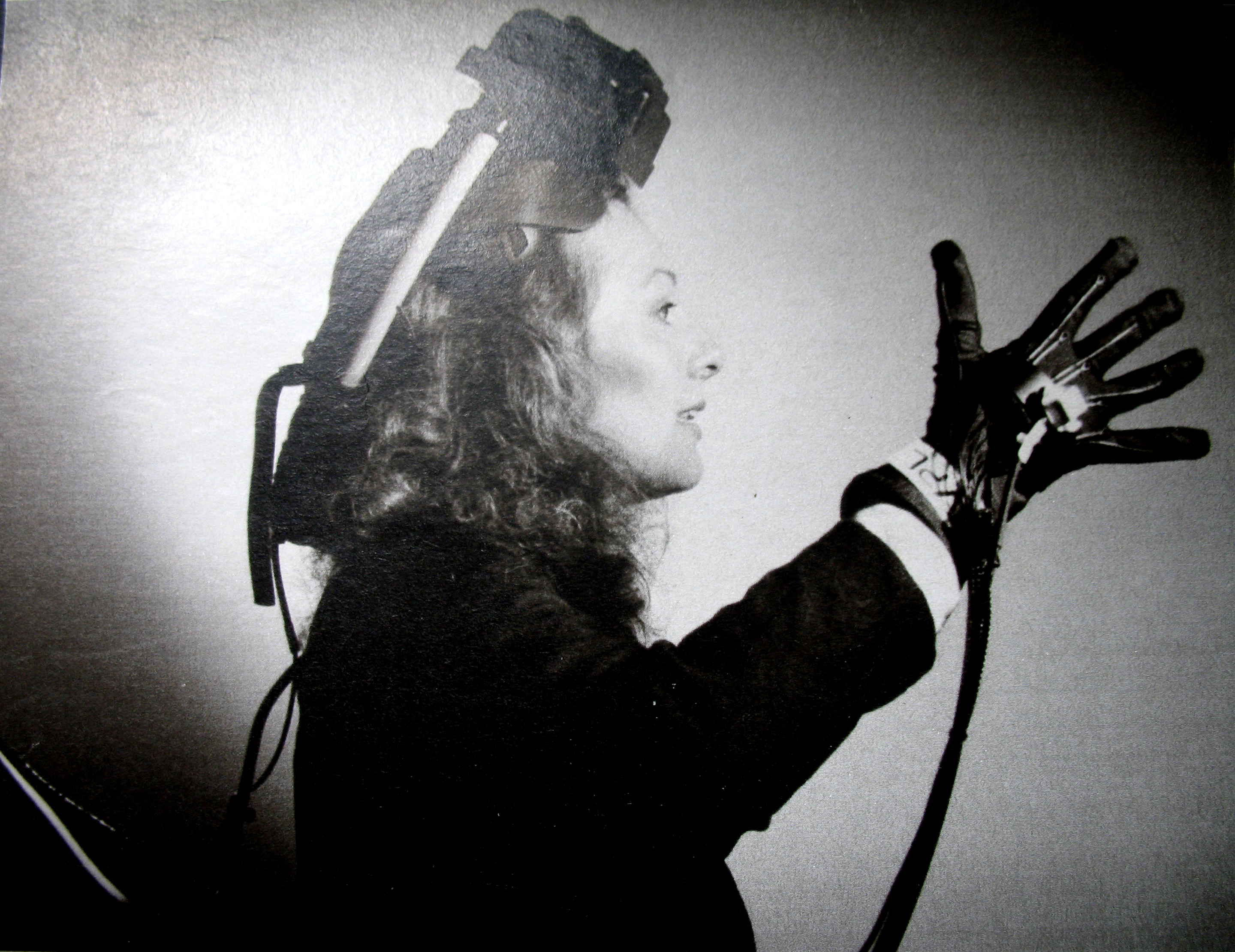 Stenger with VPL gear